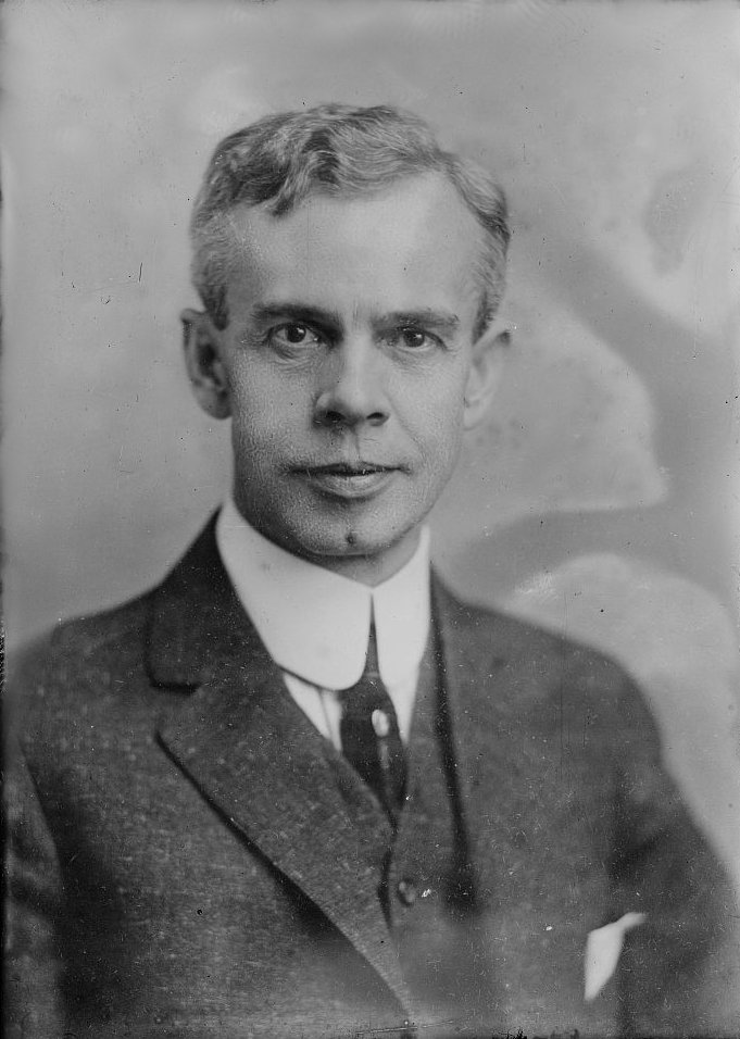 Dr. G.A. Bading (LOC) Bain News Service,, publisher. Dr. Gerhard Adolph Bading circa 1914 [between ca. 1910 and ca. 1915] 1 negative : glass ; 5 x 7 in. or smaller. Notes: Title from unverified data provided by the Bain News Service on the negatives or caption cards. Forms part of: George Grantham Bain Collection (Library of Congress). Format: Glass negatives. Repository: Library of Congress, Prints and Photographs Division, Washington, D.C. 20540 USA, General information about the Bain Collection is available at Persistent URL: Call Number: LC-B2- 3041-10